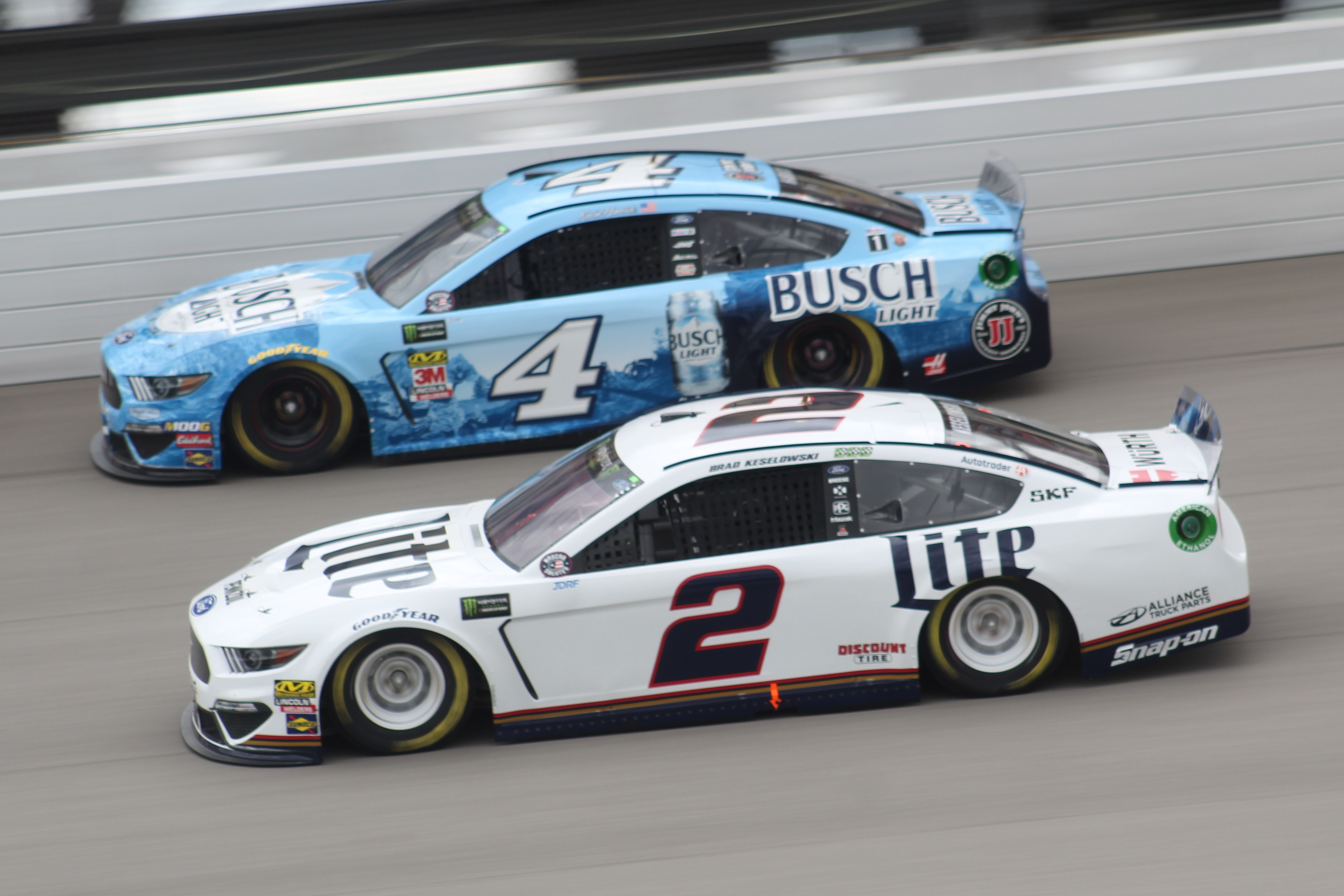 2019 FireKeepers Casino 400